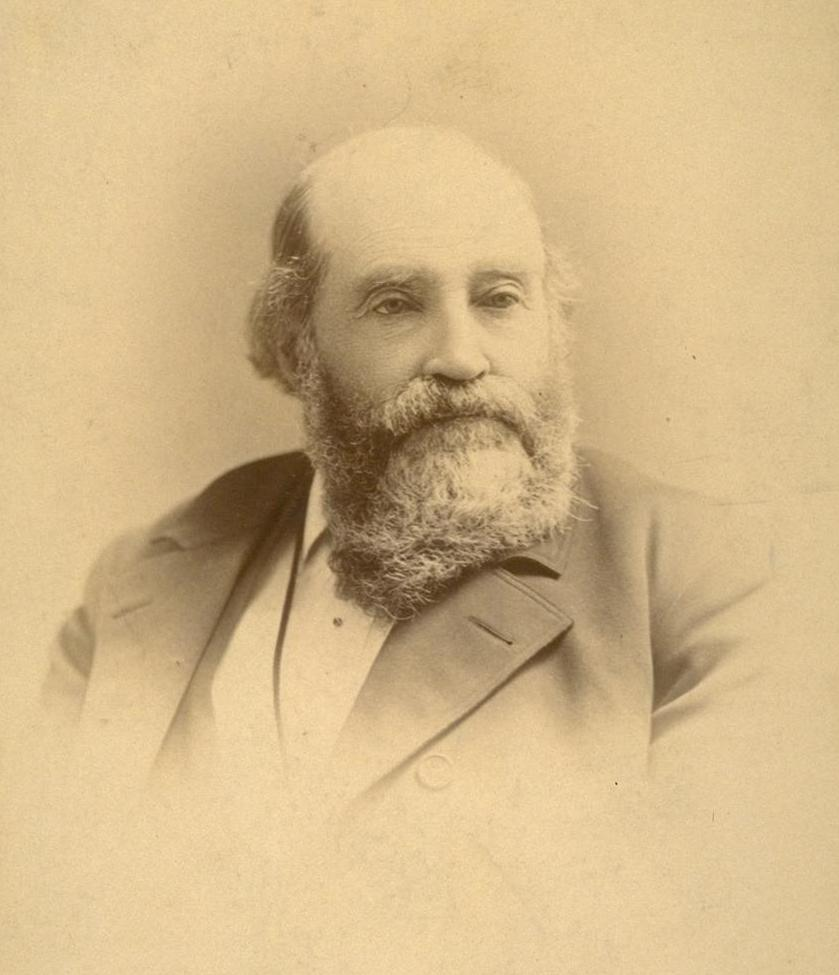 David Jack (1822-1909), American businessman, one of the creators of Monterey Jack cheese.